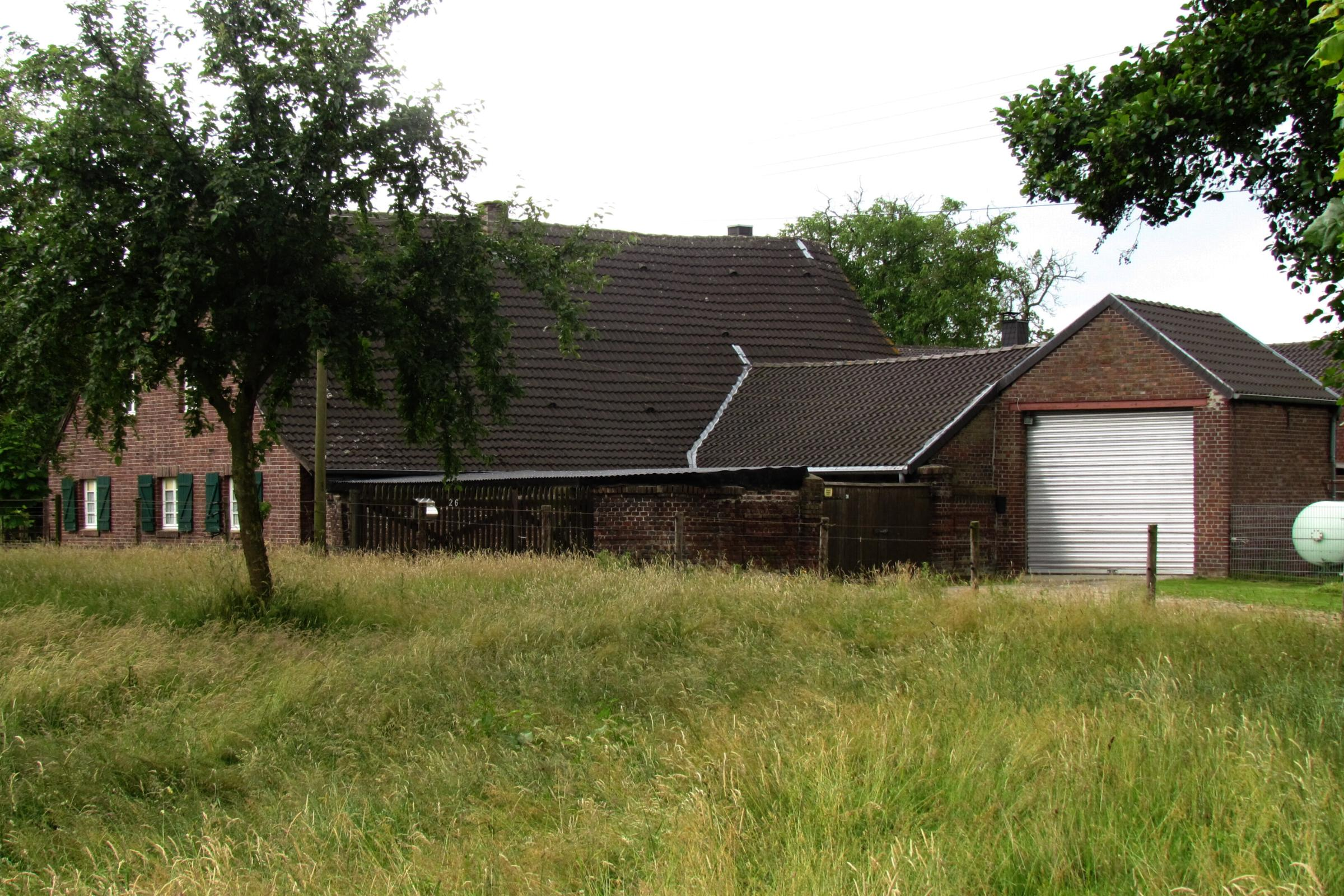 This is a photograph of an architectural monument.It is on the list of cultural monuments of Korschenbroich